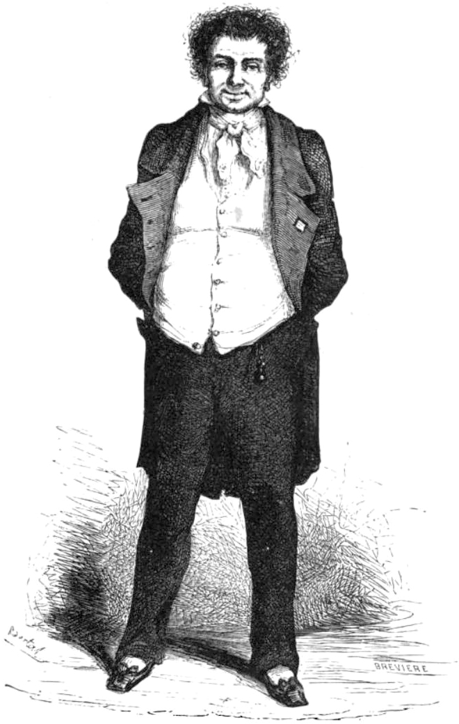 Illustration of Honoré de Balzac's César Birotteau (1837).